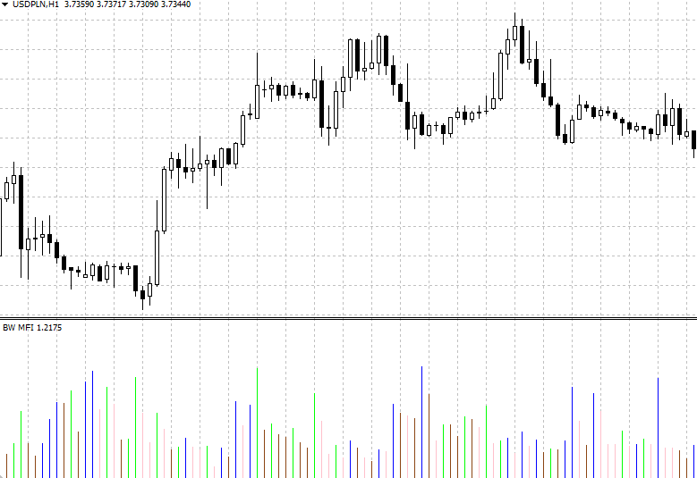 Market Facilitation Index